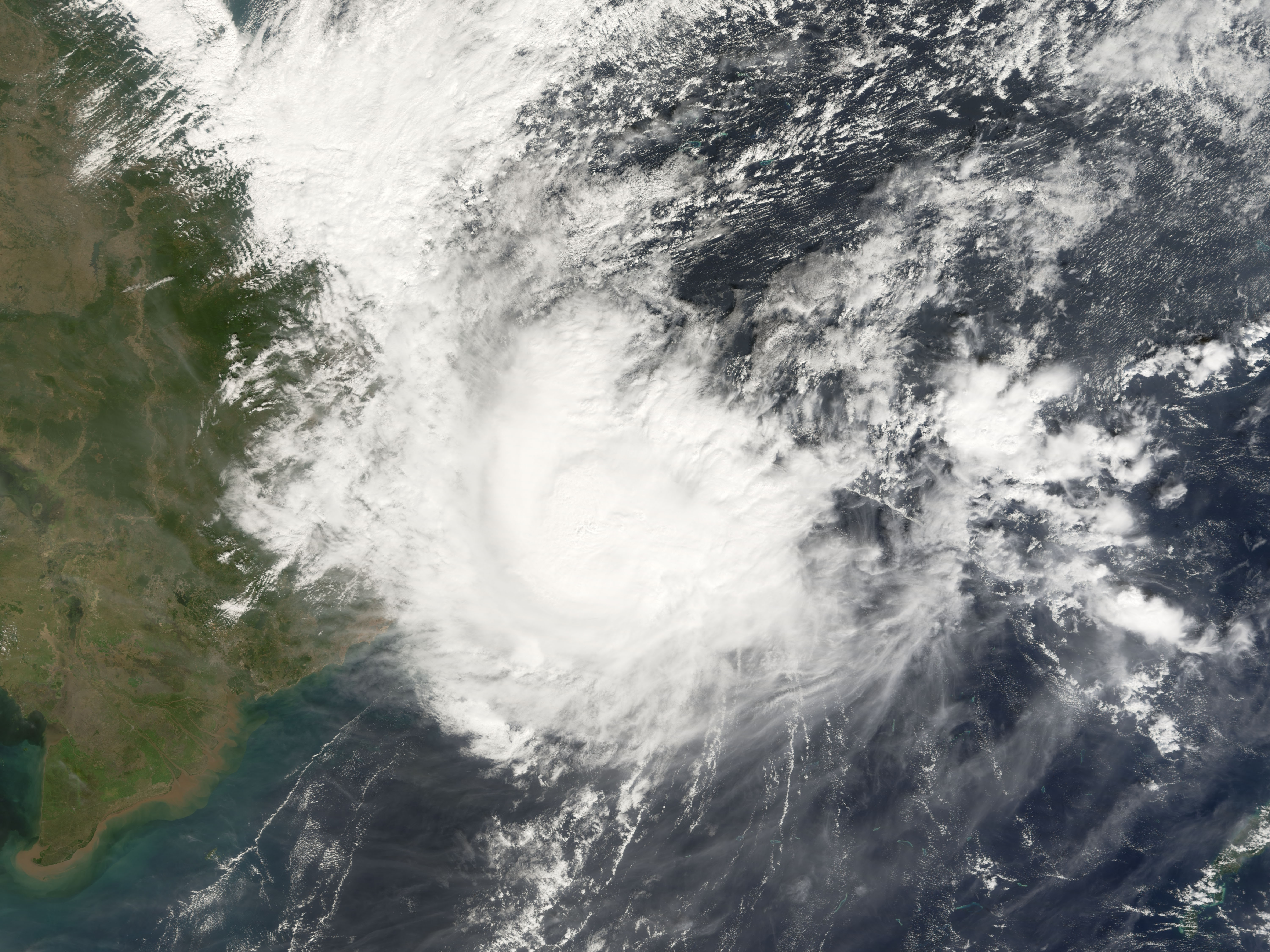 Super Typhoon Durian crossed the Philippines on November 30, 2006. The storm’s name comes from a pungent fruit native to Southeast Asia. In the Philippines, however, the typhoon was called Reming. The twelfth typhoon of the season, Durian followed track through the Philippines very similar to typhoons Xangsane, Cimaron, and Chebi earlier in the year. Durian caused substantial damage and triggered landslides and flooding from the heavy rain. According to the Red Cross, as of December 3, 2006, some 406 people in the Philippines had died from various causes directly linked to the typhoon, with some 398 people missing. The typhoon lost considerable power as it crossed the island chain and regained only a little strength as it crossed the South China Sea before coming ashore on mainland Asia in southern Vietnam. This photo-like image was acquired by the Moderate Resolution Imaging Spectroradiometer (MODIS) on the Terra satellite on December 4, 2006, at 10:10 a.m. local time (3:10 UTC), about three hours before the storm’s center crossed the shoreline. The storm system had lost much of its shape and definition by the time, with no clear eye, though powerful thunderstorm clouds can be discerned in the heart of the storm. Sustained winds were around 133 km/hr (82 mph), according to the Associated Press. Residents of southern Vietnam were bracing for the coming storm, which was expected to bring significant wind damage and flooding from heavy rain. Authorities evacuated about 14,000 people from the coastal section of Vietnam where the storm had been expected to hit, and ships at sea were ordered into coastal waters for safety.